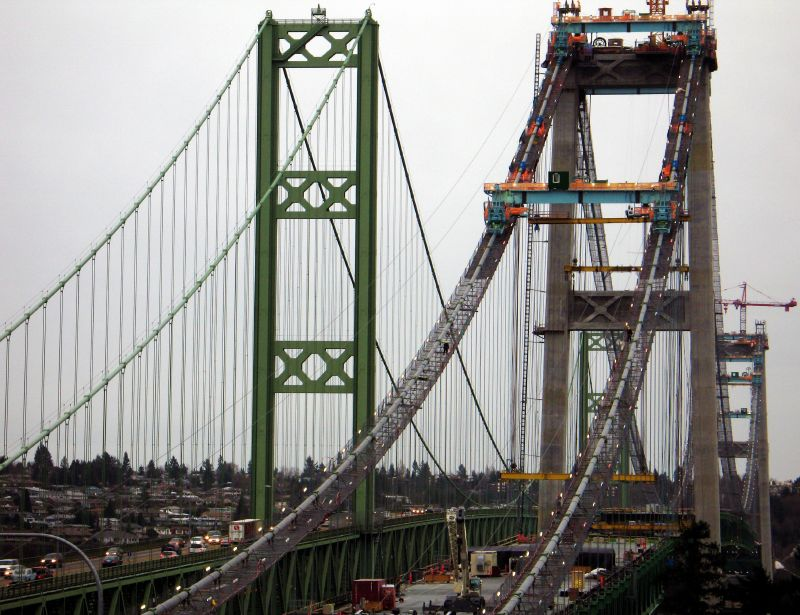 Year 1 of construction of the Tacoma Narrows Bridges